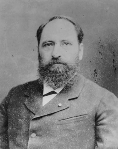 French composer Paul Lacôme (1838-1920).